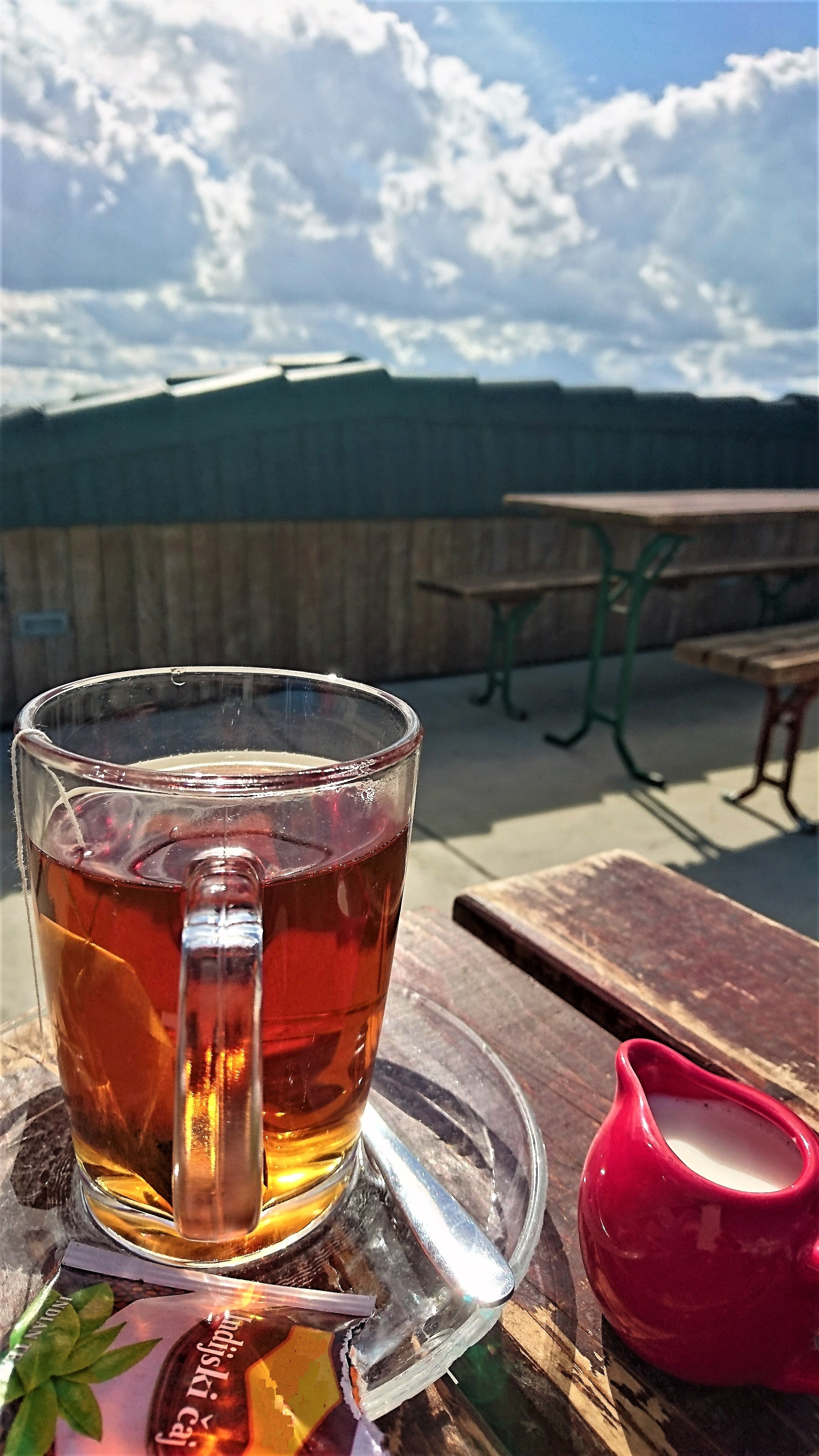 Cup of black tea within filter bag, ready to be enriched in flavor with milk and sugar